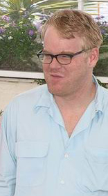 Philip Seymour Hoffman at the 2002 Cannes Film Festival